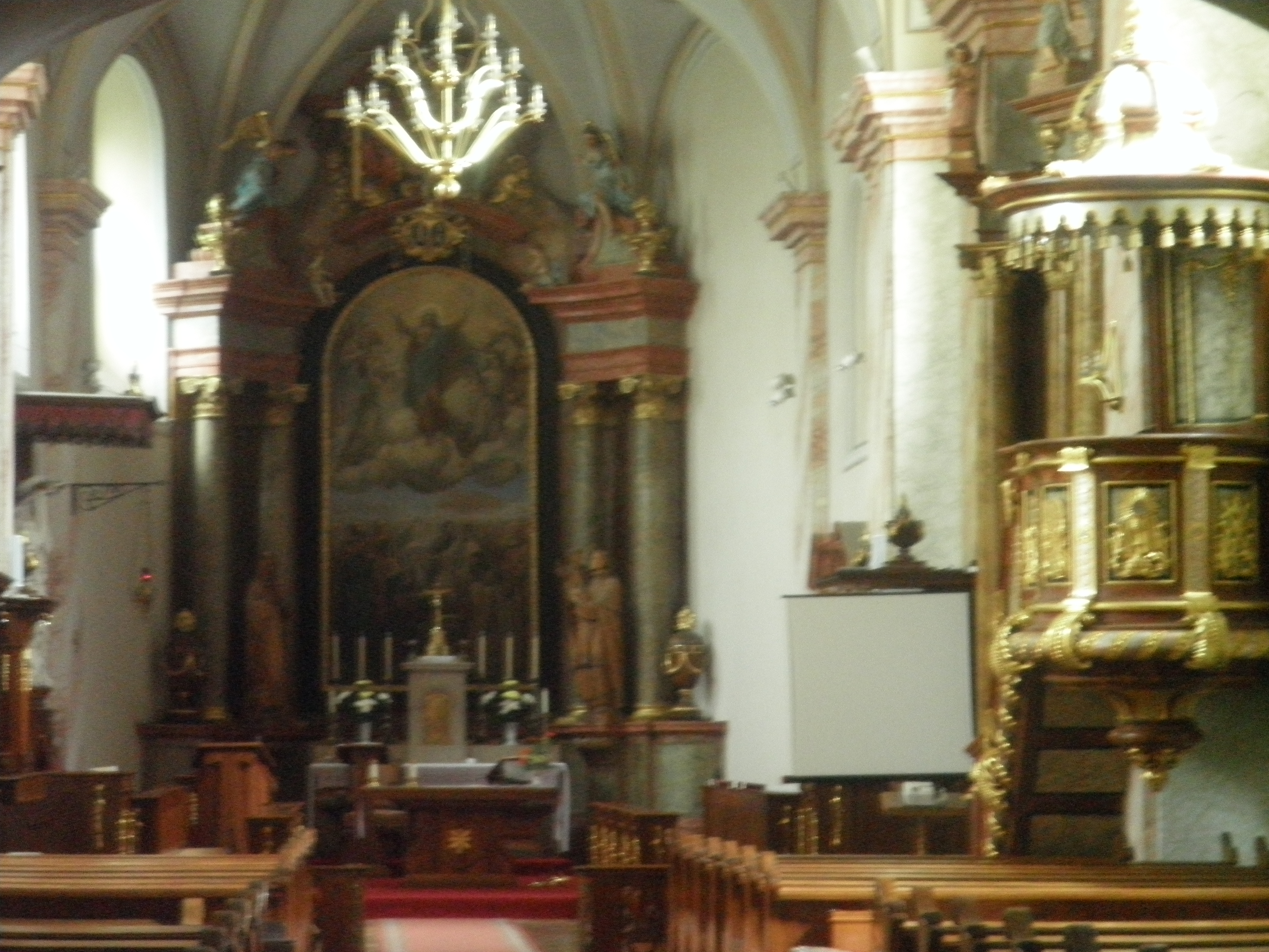 Church, Premonstratensian abbey, Csorna, Hungary